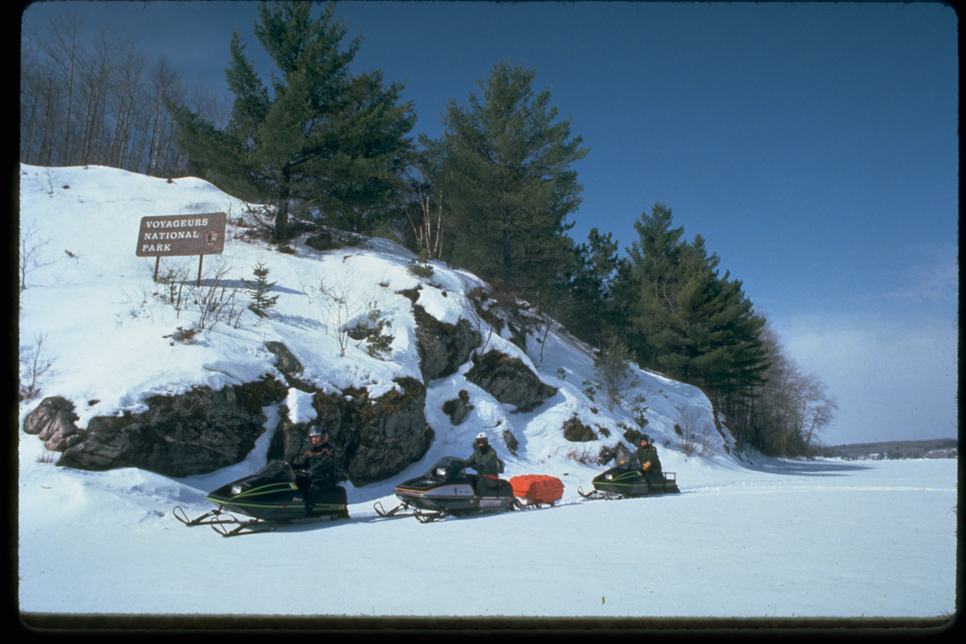 Nearly 200 years ago voyageurs paddled birch bark canoes full of animal pelts and trade goods through this area on their way to Lake Athabaska, Canada. Today, people explore the park by houseboat, motorboat, canoe and kayak. Voyageurs is a water-based park where you must leave your car and take to the water to fully experience the lakes, islands and shorelines of the park.